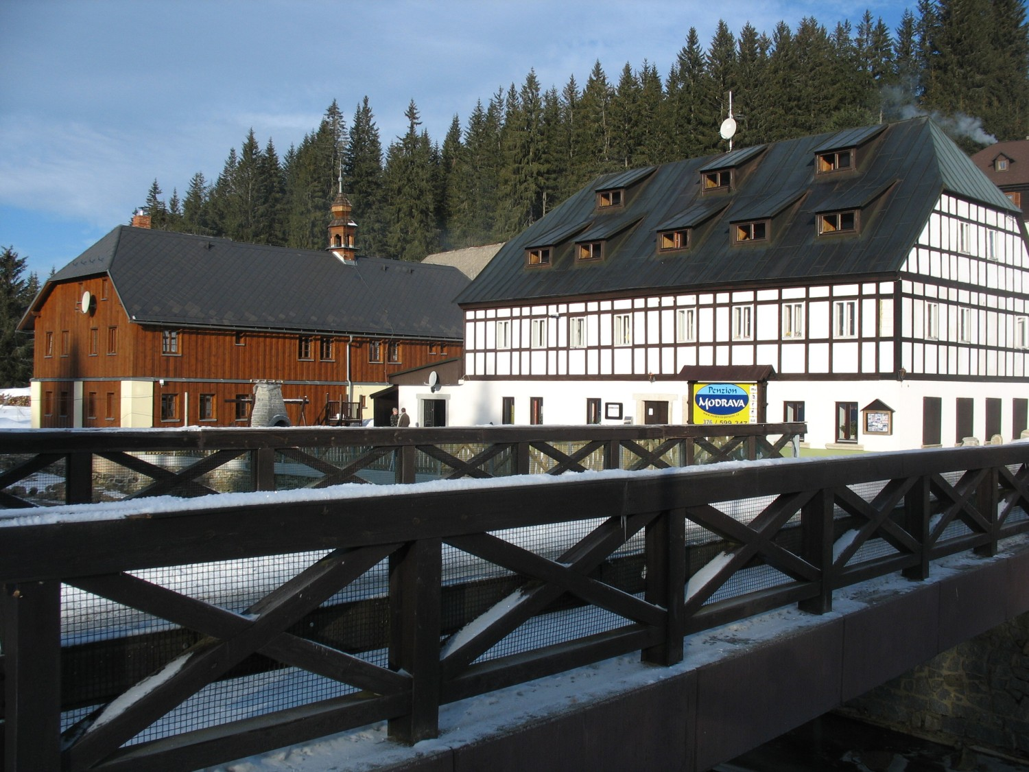 The village Modrava in the Šumava Mts., Czech republic